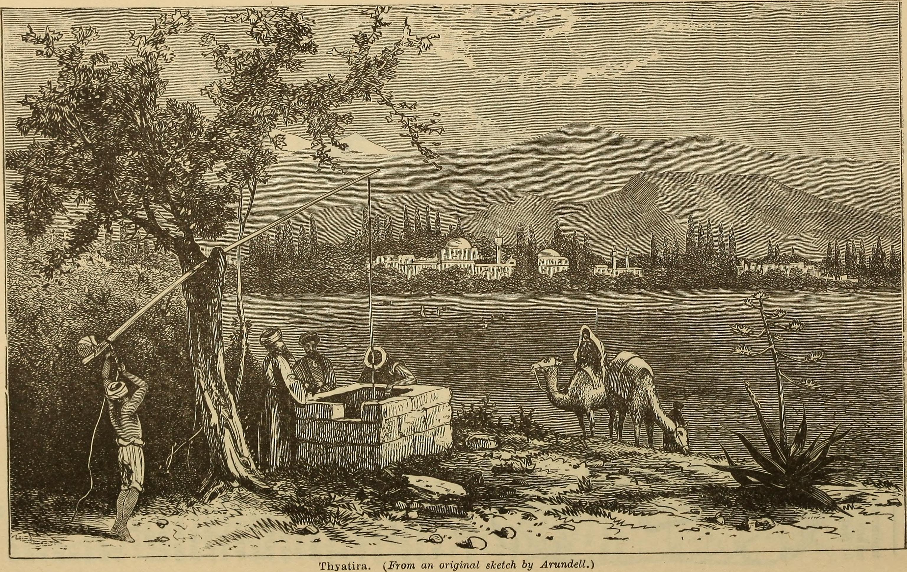 Title: A dictionary of the Bible.. Year: 1887 (1880s) Authors: Schaff, Philip, 1819-1893 Subjects: Publisher: (n. p.) Text Appearing Before Image: Thyine-Wood (Thuya Articulata). tained from a small tree (Thuya articu-lata) belonging to the cone-bearing or-865 Text Appearing After Image: TIB TIB der and resembling our cedar and arbor-vitas. It was highly valued by theRomans, in the days of their luxury,for cabinet-work, being very compactand fragrant and of a handsome brown,often variegated by knots. It was ob-tained in Northern Africa, and from itis still collected the true gum-sanda-rach. Rev. 18 : 12. TIBERIAS, a town of Galilee,situated on the western bank of the Seaof Galilee, which is called the Sea ofTiberias only by John, who was the lastof the N. T. writers. John 6 : 1; 21 : 1. History.—The city is only once men-tioned in the N. T. John 6 : 23. Althoughit was an important and busy town inChrists time, there is no record that heever visited it. It was then a new city,built by Herod Antipas, a. d. 16-22, andnamed in honor of the emperor Tiberias.Josephus, who mentions the city veryfrequently, says that Herod built it ona site where were ancient sepulchresbelonging to an extinct and forgottencity. Thus it was unclean to the Jews,and Herod brought in many stran